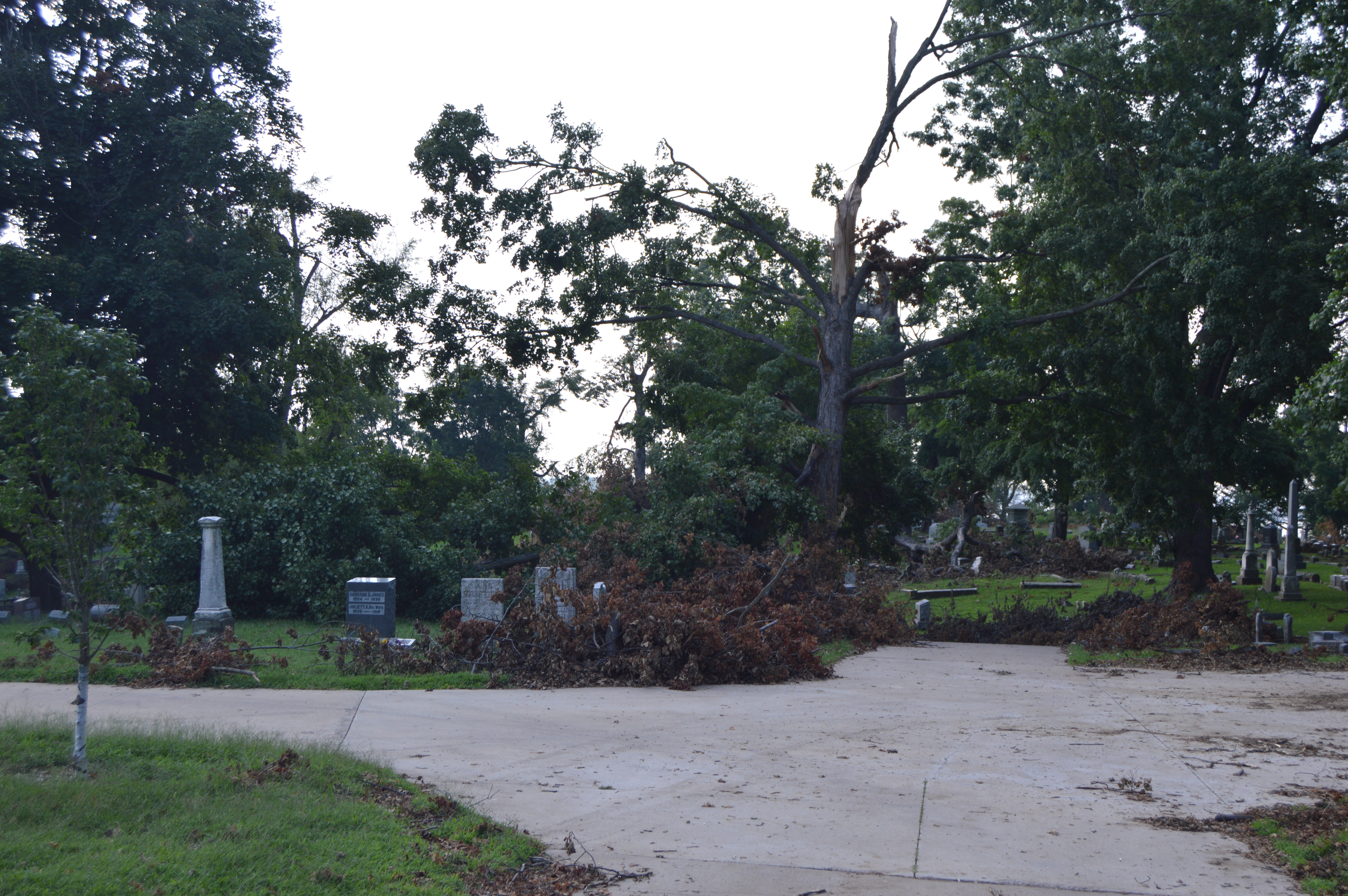 Scene in a typical section of Woodland Cemetery in Quincy, Illinois, United States. The cemetery sustained extensive damage during a 13 July storm, along with the rest of the city; this picture was taken more than two weeks later, but significant cleanup had not yet begun.